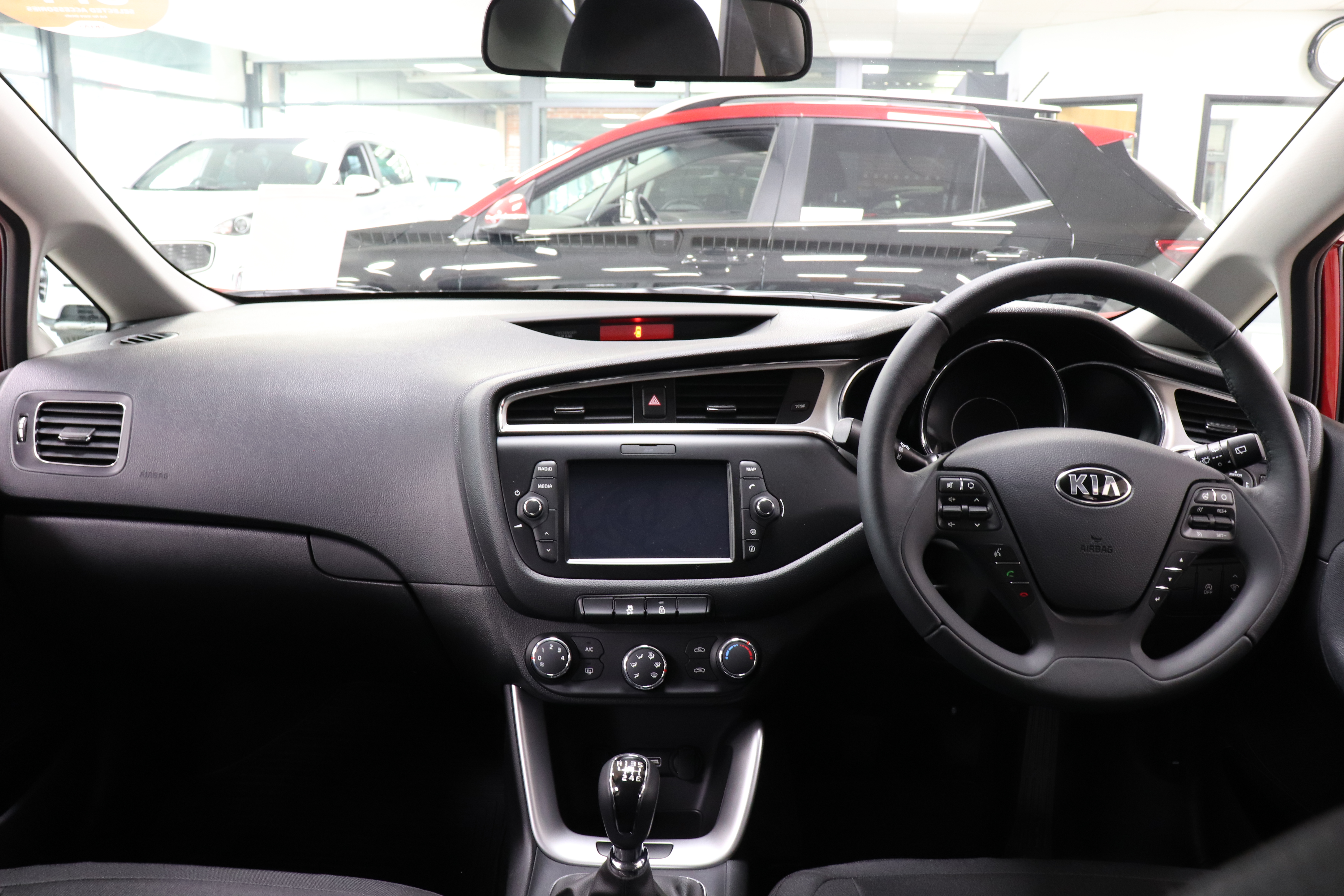 2017 Kia C'ee'd Interior Taken in Warwick